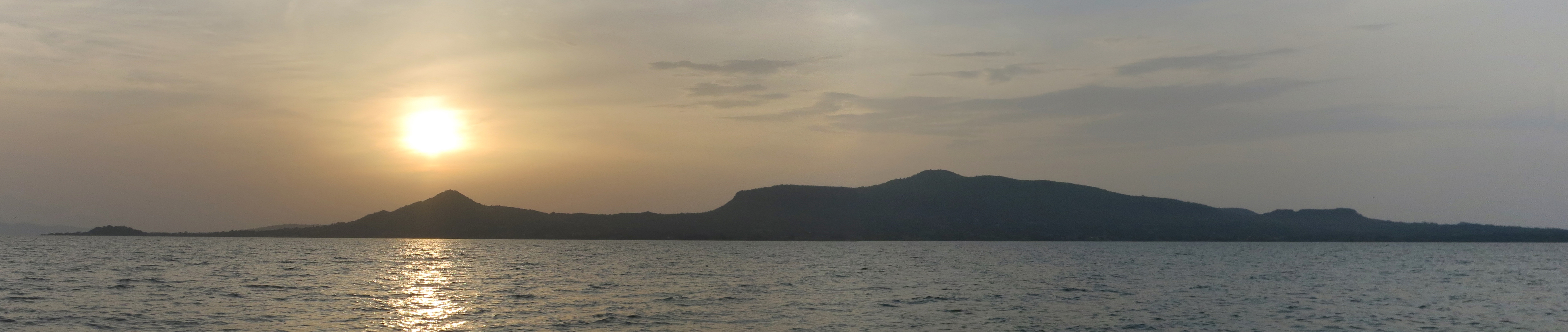 Rusinga Island, Lake Victoria, Kenya - Panorama picture taken from the south-eastern direction.